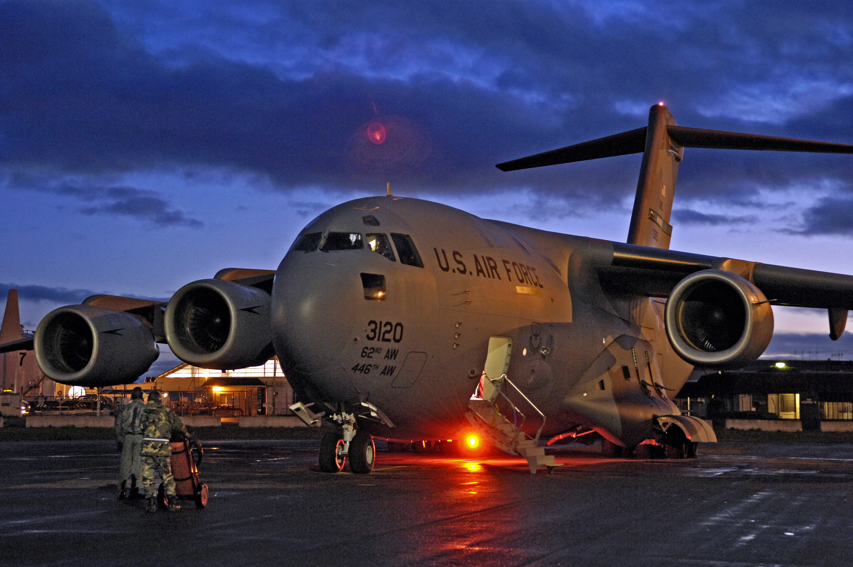 A maintenance crew prepares to launch a C-17 Globemaster III Aug. 20 for a winter fly-in mission from for Operation Deep Freeze Aug. 20 Christchurch, New Zealand. A C-17 and 31 Airmen from McChord Air Force Base, Wash., are flying in an augmentation of scientists, support staff, food and equipment for the U.S. Antarctic Program at McMurdo Station.